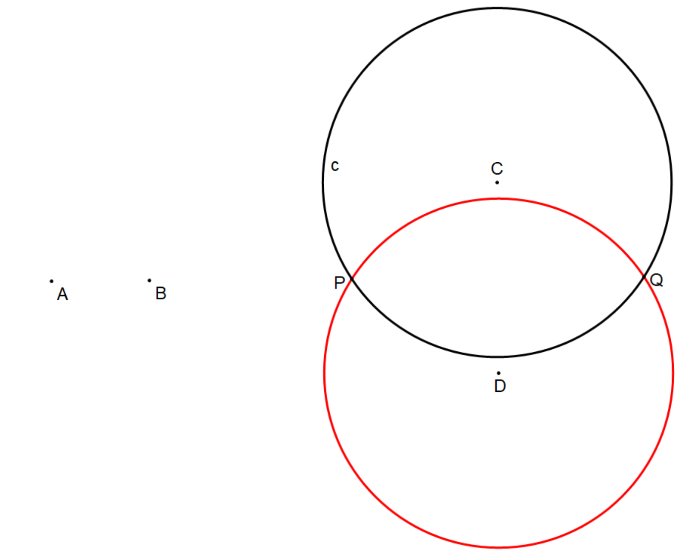 Image created in Geometer's Sketchpad. Depicts the construction of the intersection points P,Q between the line defined by AB and the circle c. Mohr-Mascheroni (compass-only Euclidean) construction.